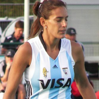 Luciana Aymar. Argentina. Las Leonas. Field hockey. (Frag)